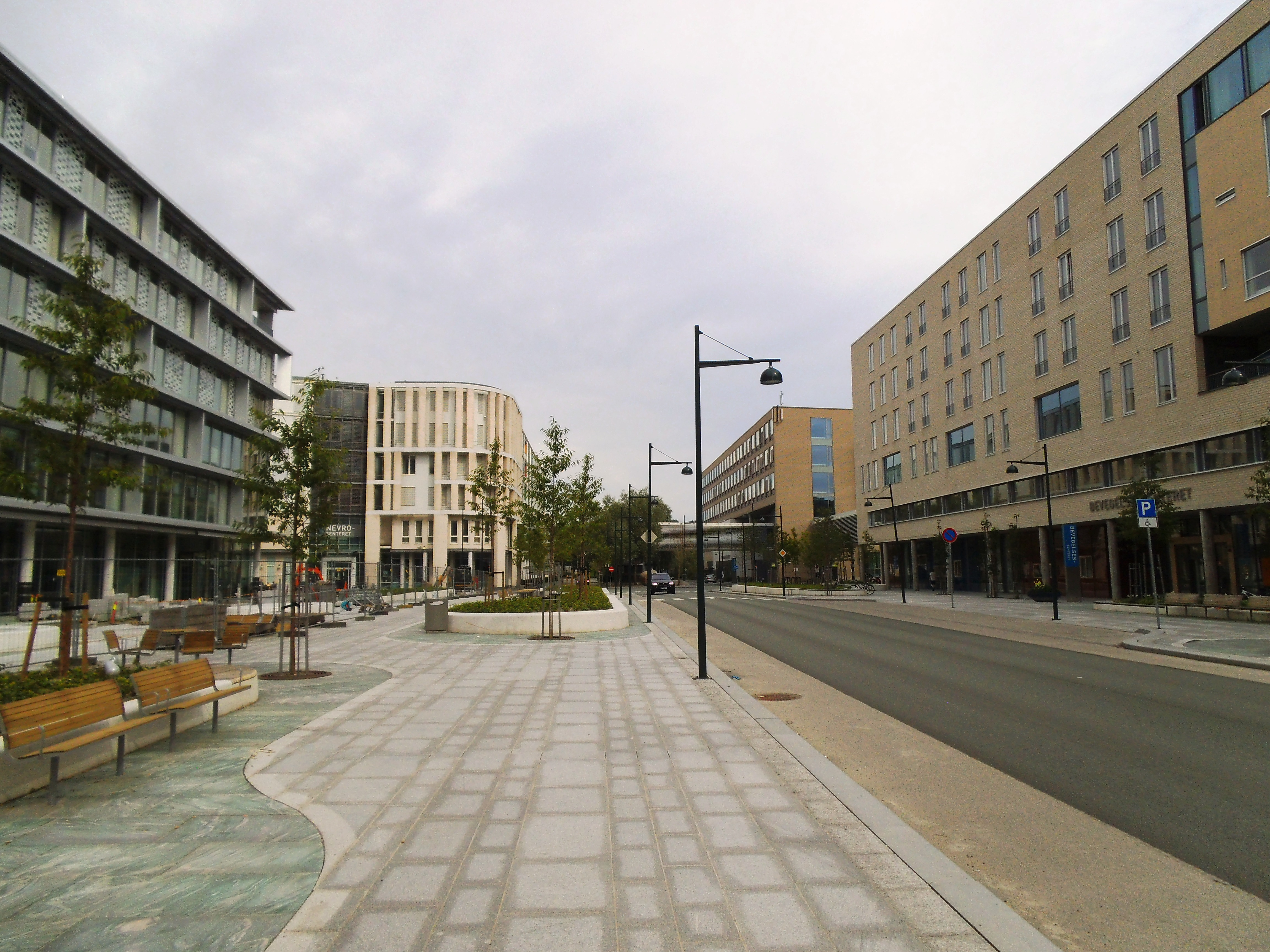 St. Olavs Hospital. Nybyggene på Olav Kyrres plass, retning øst. Nærmest til venstre ser man Kunnskapssenteret og til høyre Bevegelsessenteret. Lengst unna til venstre ser man Nevrosenteret og til høyre Kvinne-barn senteret.